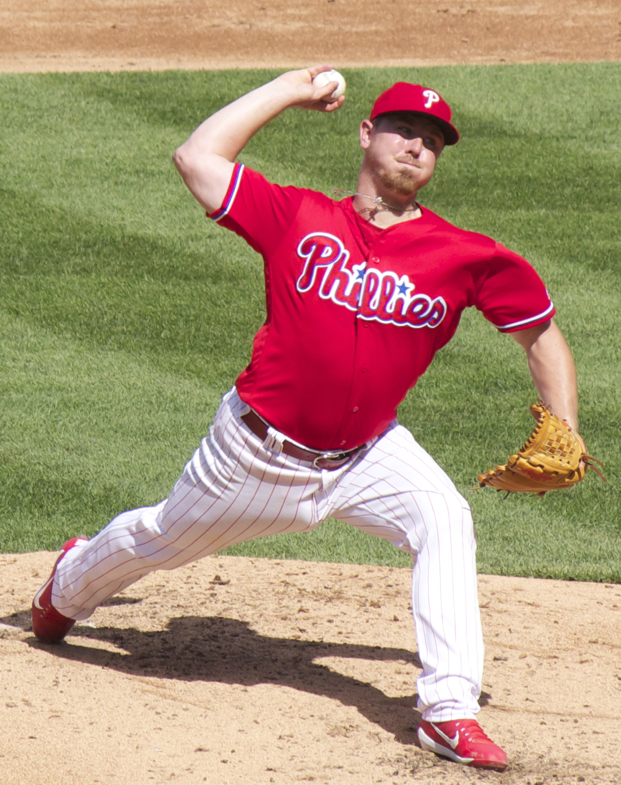 Philadelphia Phillies vs. Los Angeles Dodgers, 9/21/17